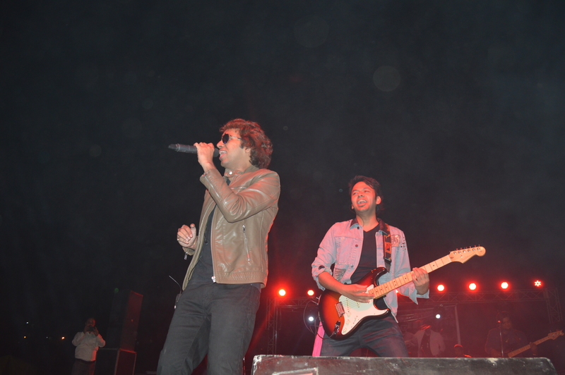 Band Performance in in Exodia 2016